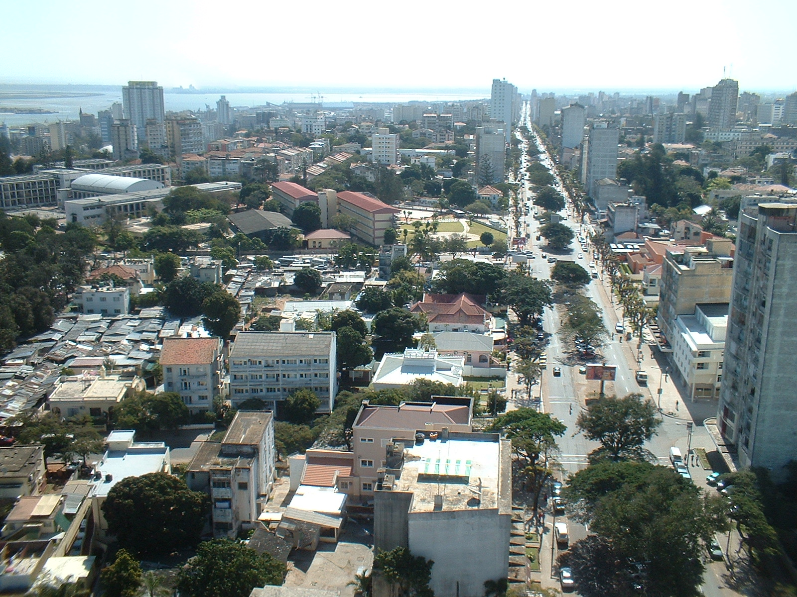 Avenida 24 de Julho, Maputo, Mozambique